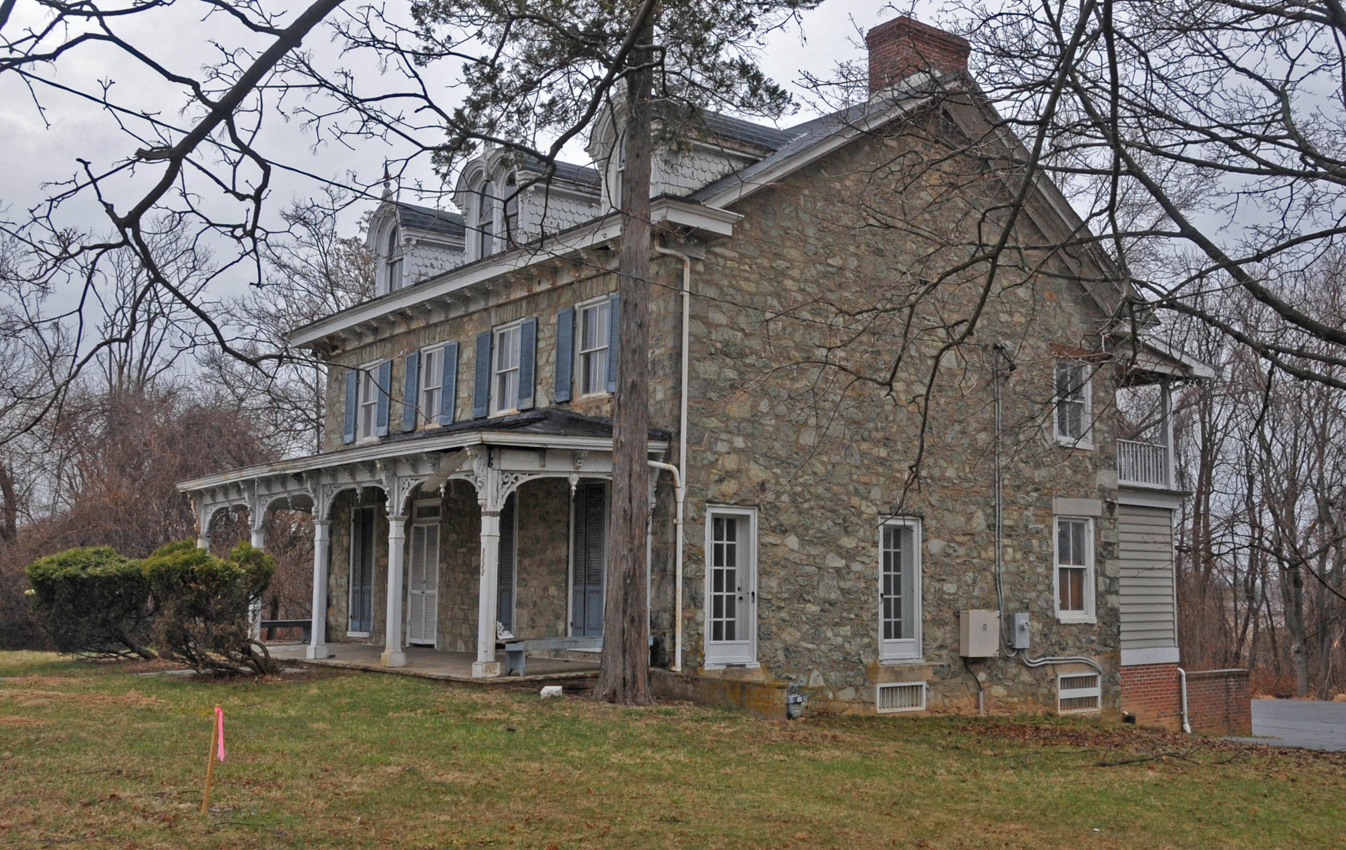 LOCATED IN RANDALLSTOWN; BUILT IN 1810 WITH PORCH AND DORMERS ADDED IN 1880